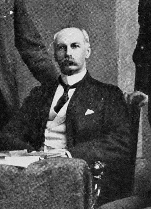 Detail from File:Postal officers India 1898.jpg showing A.U. Fanshawe